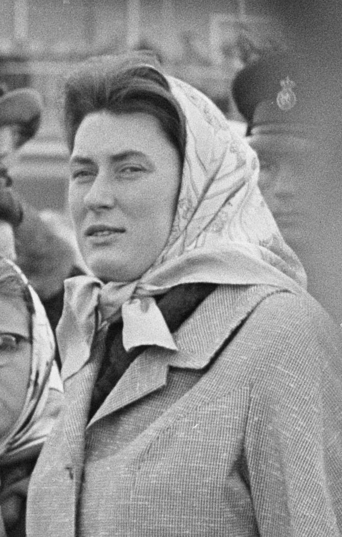 Martine van Loon-Labouchere